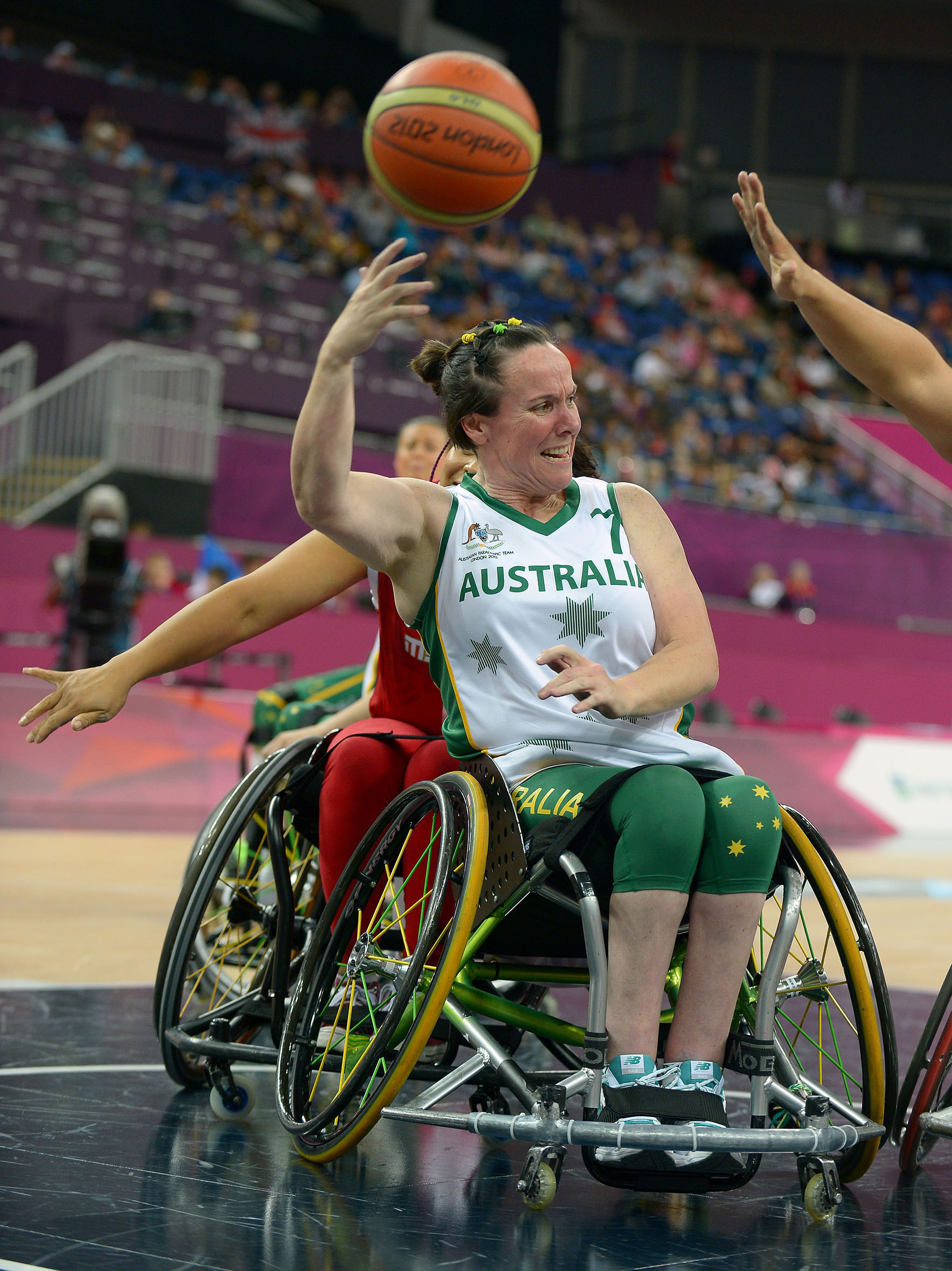 Photograph of Australian Paralympic team member Amanda Carter at the 2012 Summer Paralympic Games in London